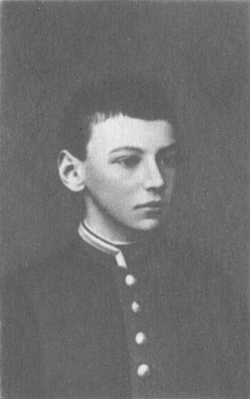 Vyacheslav Menzhinsky (1874—1934)